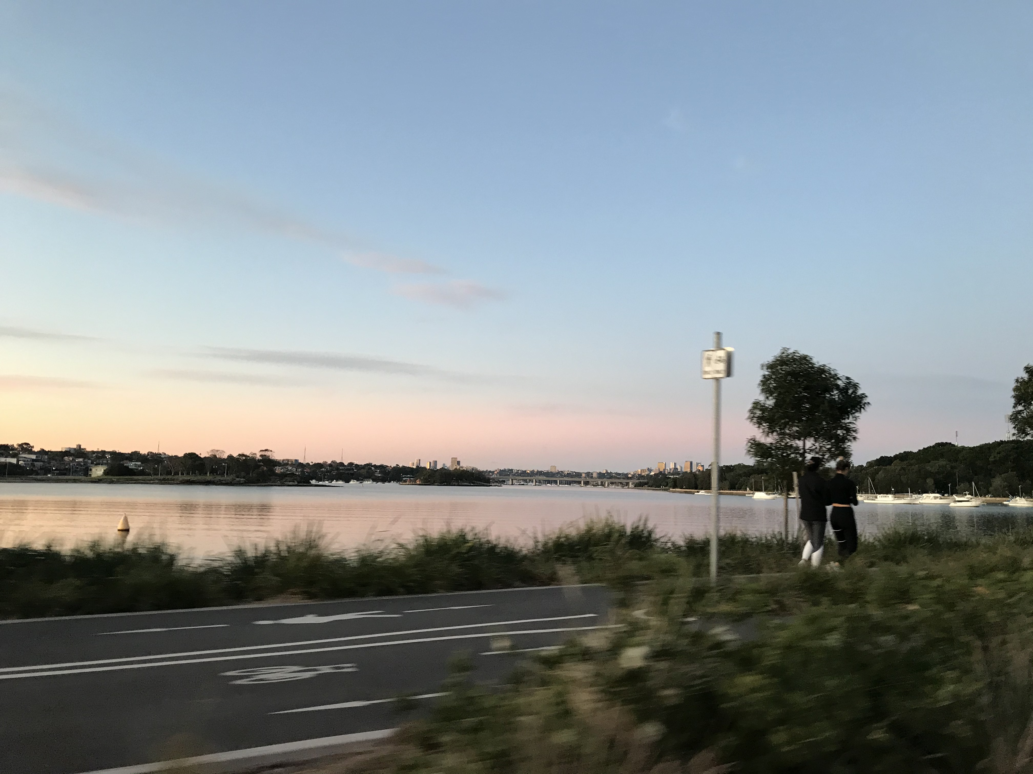 This photo is taken of the Bay Run, which is found in the Inner West of Sydney